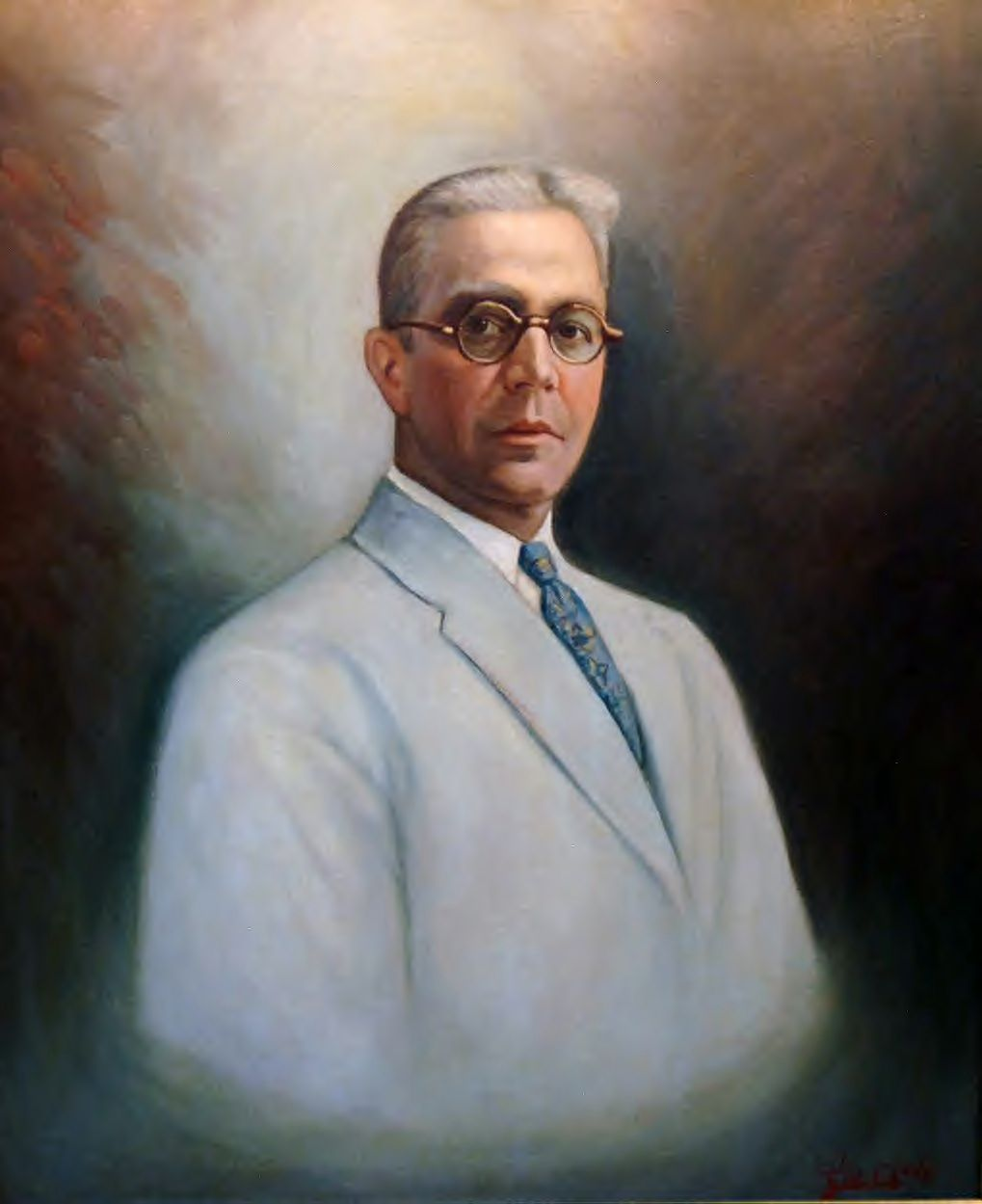 Painting of the Honorable Rafael Martínez Nadal, former Secretary of State of Puerto Rico.